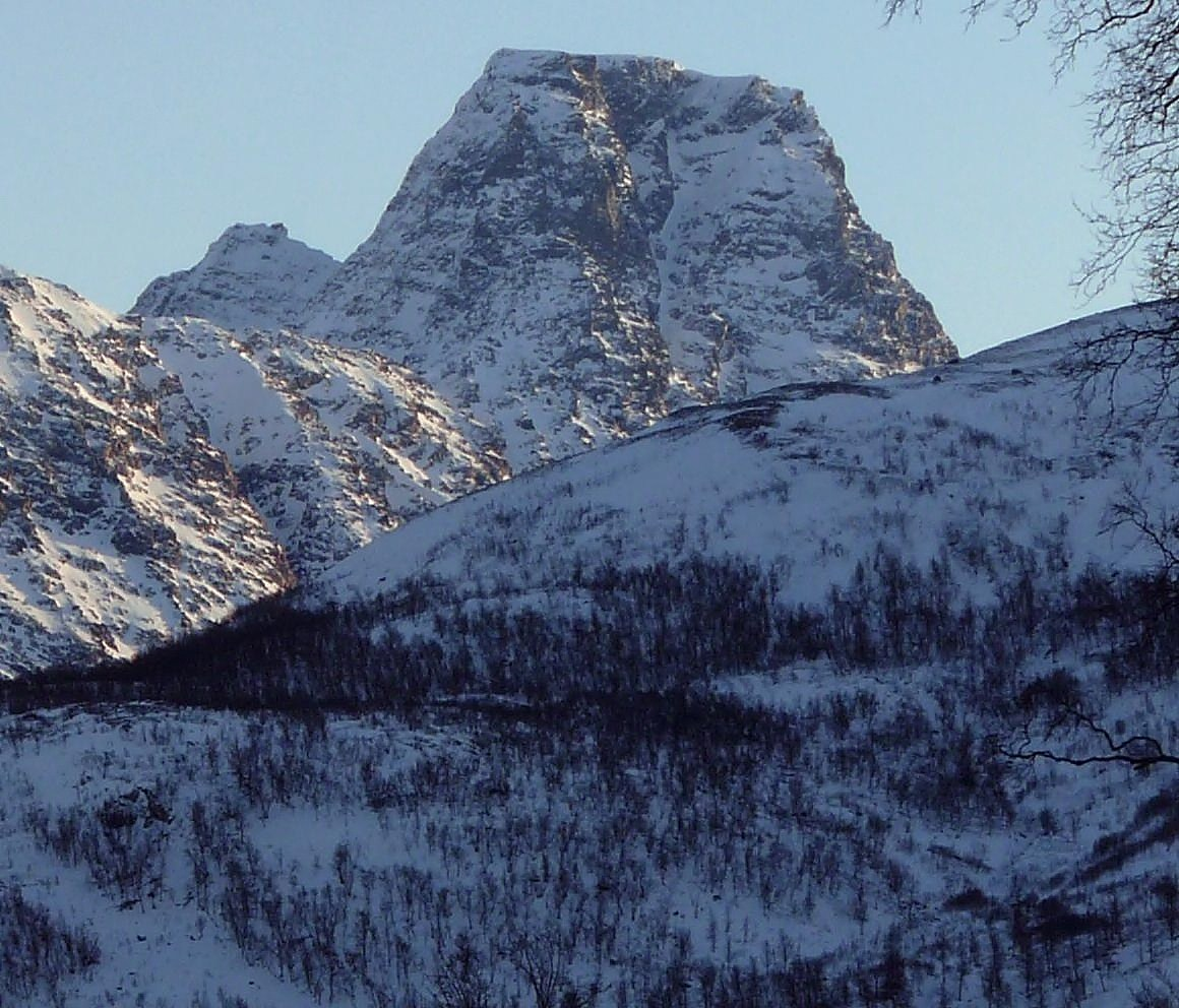 The west face of Store Fornestinden (1,477 m) seen from Jøvik in 2009 February.